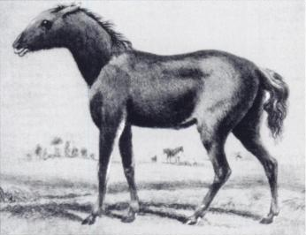 Only known illustration of a tarpan made from life, depicting a five month old colt.(Bennett 1998)